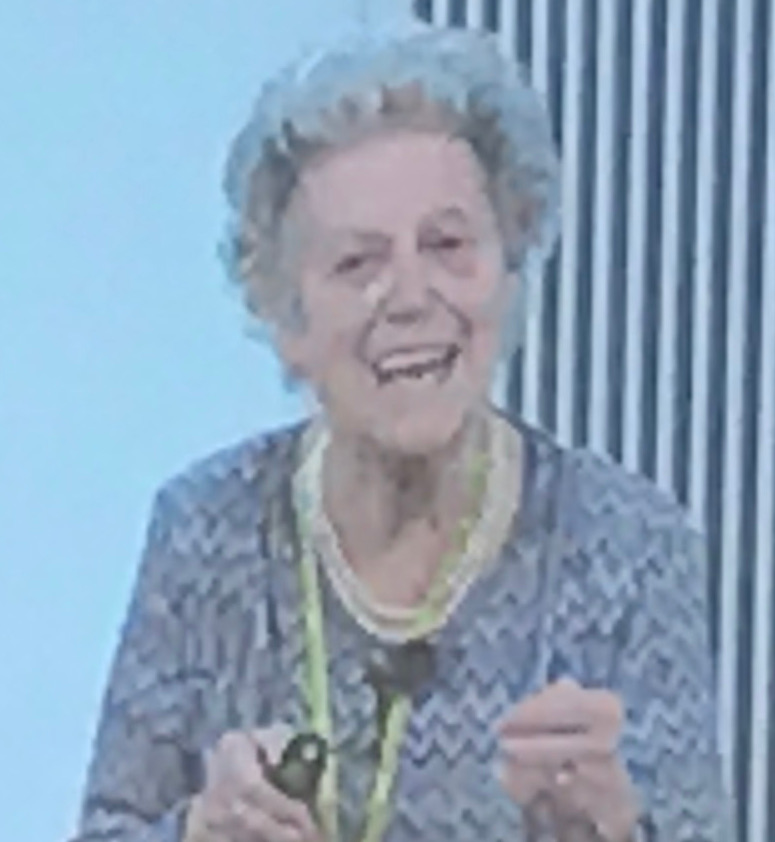 Italian engineer Amalia Ercoli-Finzi.